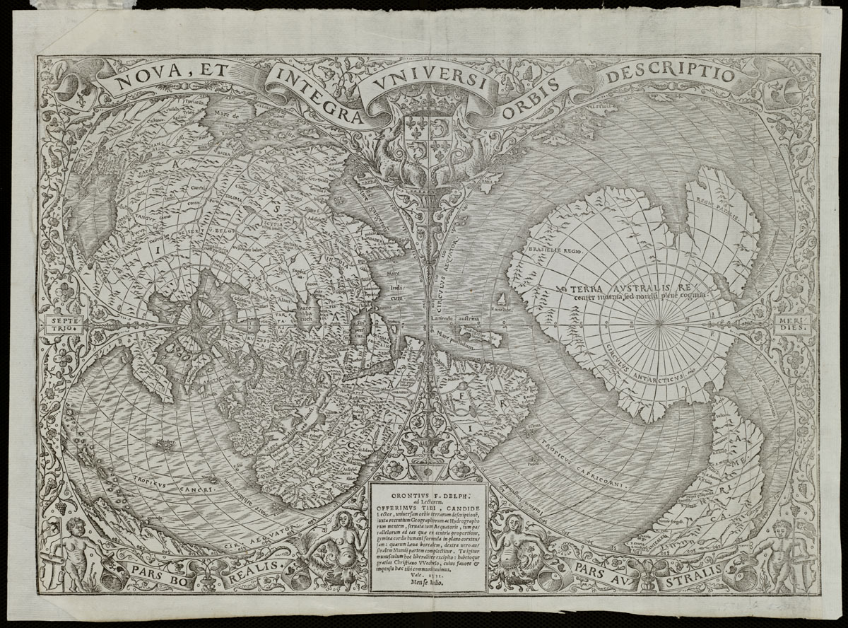 Author: Fine, Oronce Publisher: [s.n.] Date: 1532. Scale: Scale not given. Call Number: G3200 1532.F6 Zoom into this map at . Fine, an eminent French cartographer, created this unique double cordiform or heart-shaped projection, emphasizing the northern and southern hemispheres. The European, Asian and African continents were prominently placed in the center of the left (northern) cordum. However, his treatment of the Americas was somewhat more tentative. By splitting the new World discoveries along the left edge of the northern cordum, it was not obvious that he had depicted these lands as a large peninsula attached to the Asian mainland. While this depiction contradicted Waldseemèuller's model, Fine did retain the name America, which appears in the southern part of South America, in the right (southern) cordum. This portion of the map is dominated by a continent that was still speculative. Fine labeled it, "Terra Australis," based on Magellan's relatively recent passage through the strait at the southern tip of South America. A modern redrawing on an oval projection (see below) by Robert W. Karrow helps to clarify the geographic images portrayed on Fine's map. Fine's use of a single cordiform projection in 1519, as well as this use of the double cordiform projection, introduced a tradition of similar world maps throughout the 16th century. While the projection has a mathematical basis, it presents a visually pleasing map. It is also conceivable, since the heart was a widespread Christian symbol, that the use of the heart-shaped projection added religious meaning to the contents of the map.